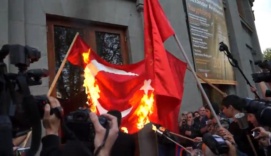 The flag of Turkey burned by a group of protesters in Yerevan's Freedom Square on April 23, 2013 the day before Armenian Genocide remembrance day